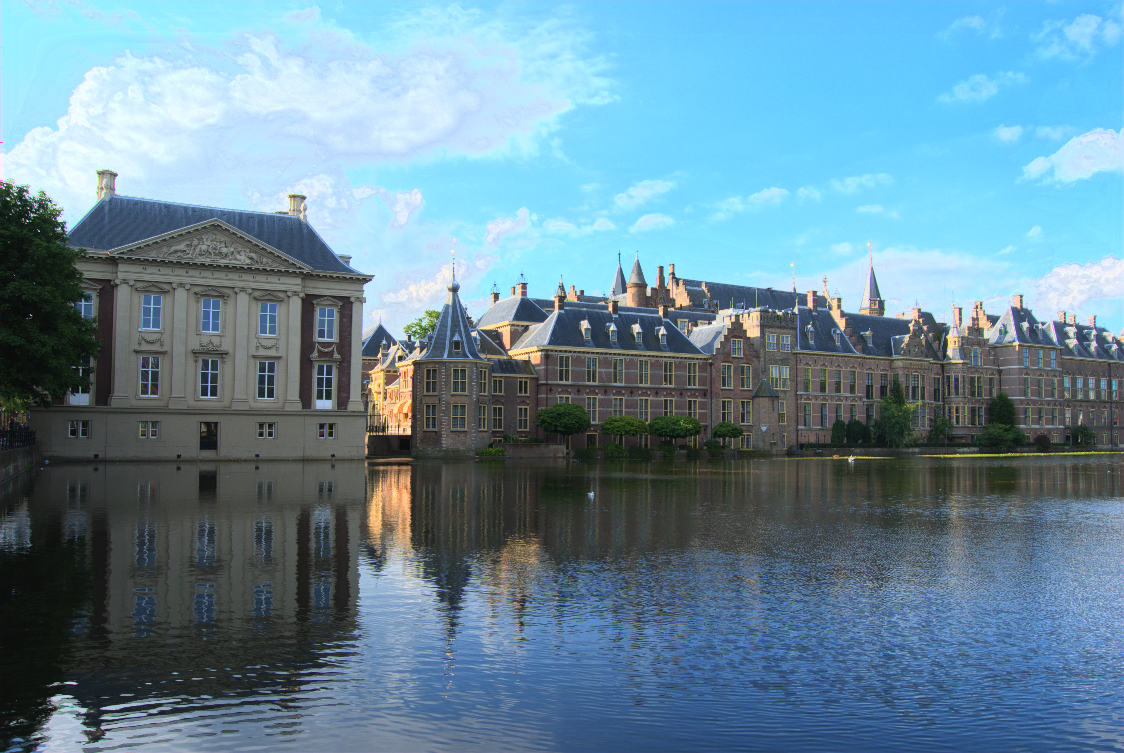 Binnenhof